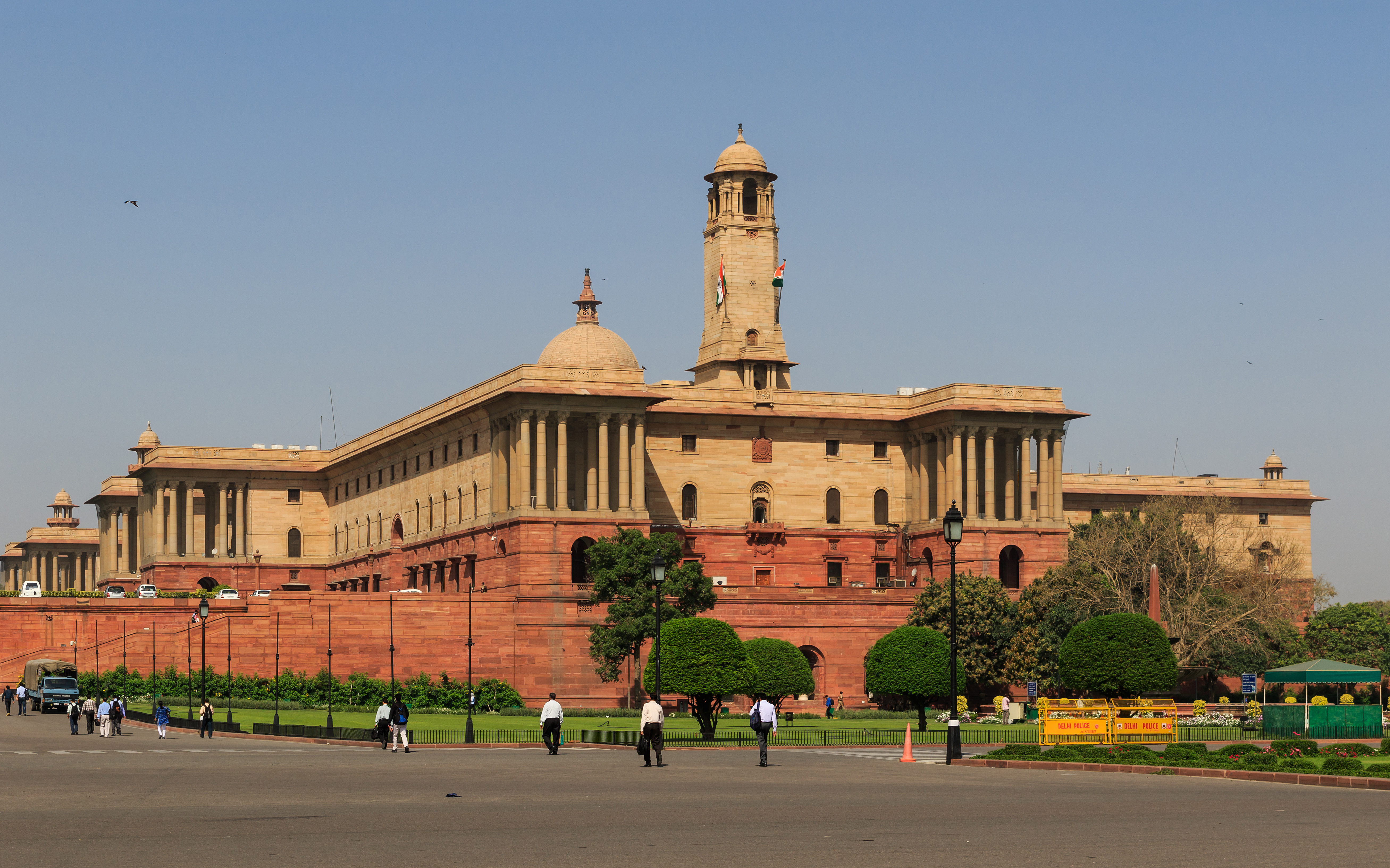 Ensemble of Government buildings on Rajpath in New Delhi, India